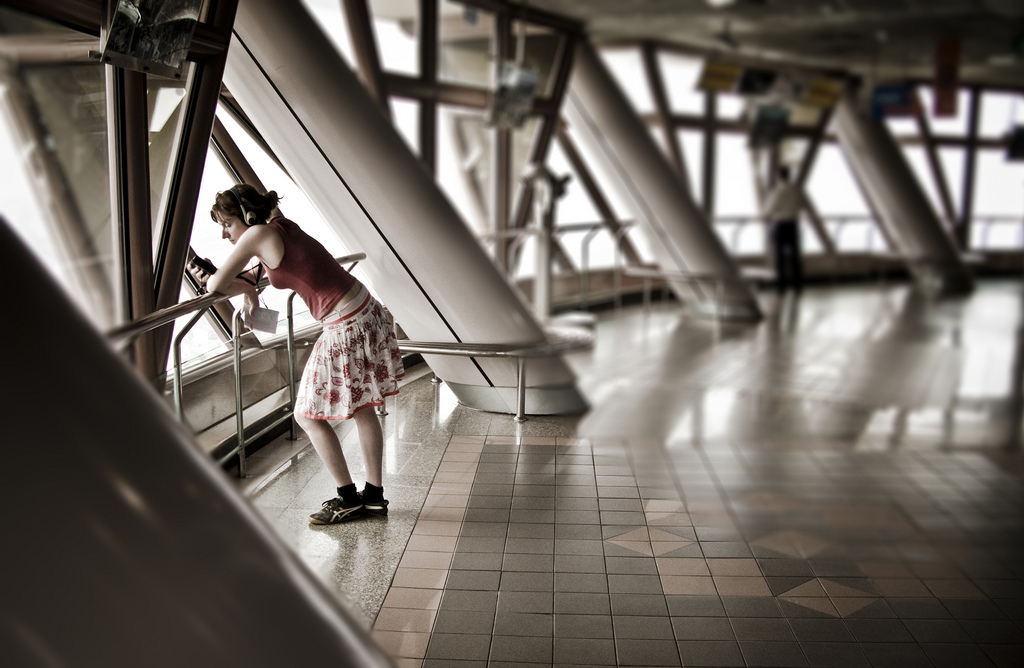 Inside the Observation Deck of KL Tower